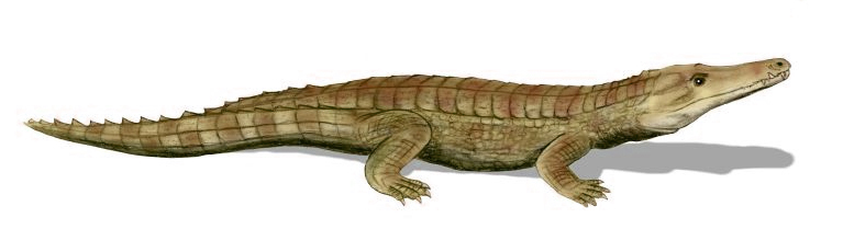 Itasuchus jesuinoi, a crocodilian from the Upper cretaceous of Brazil, pencil drawing, digital coloring